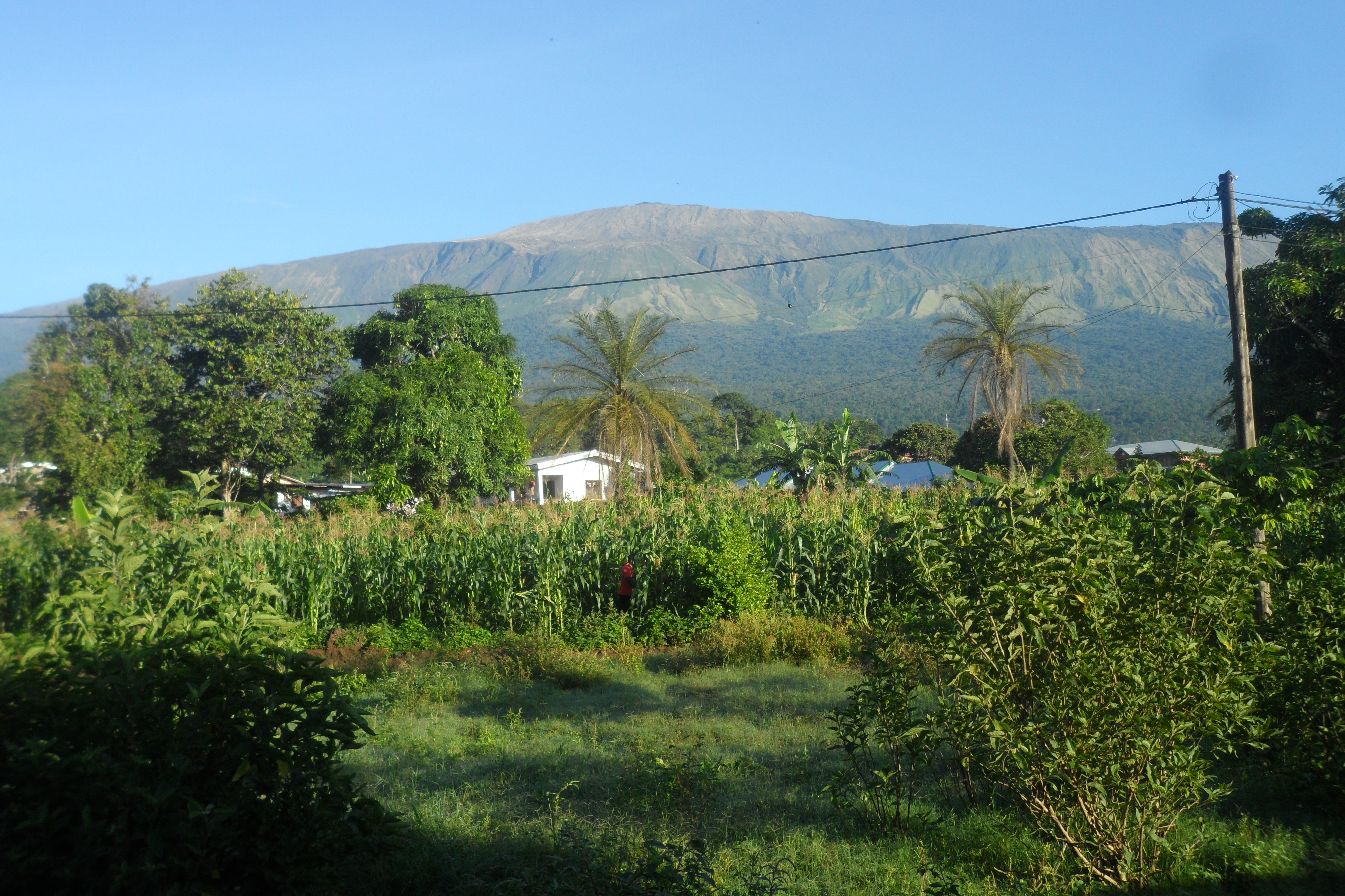 Another view of Mt Fako